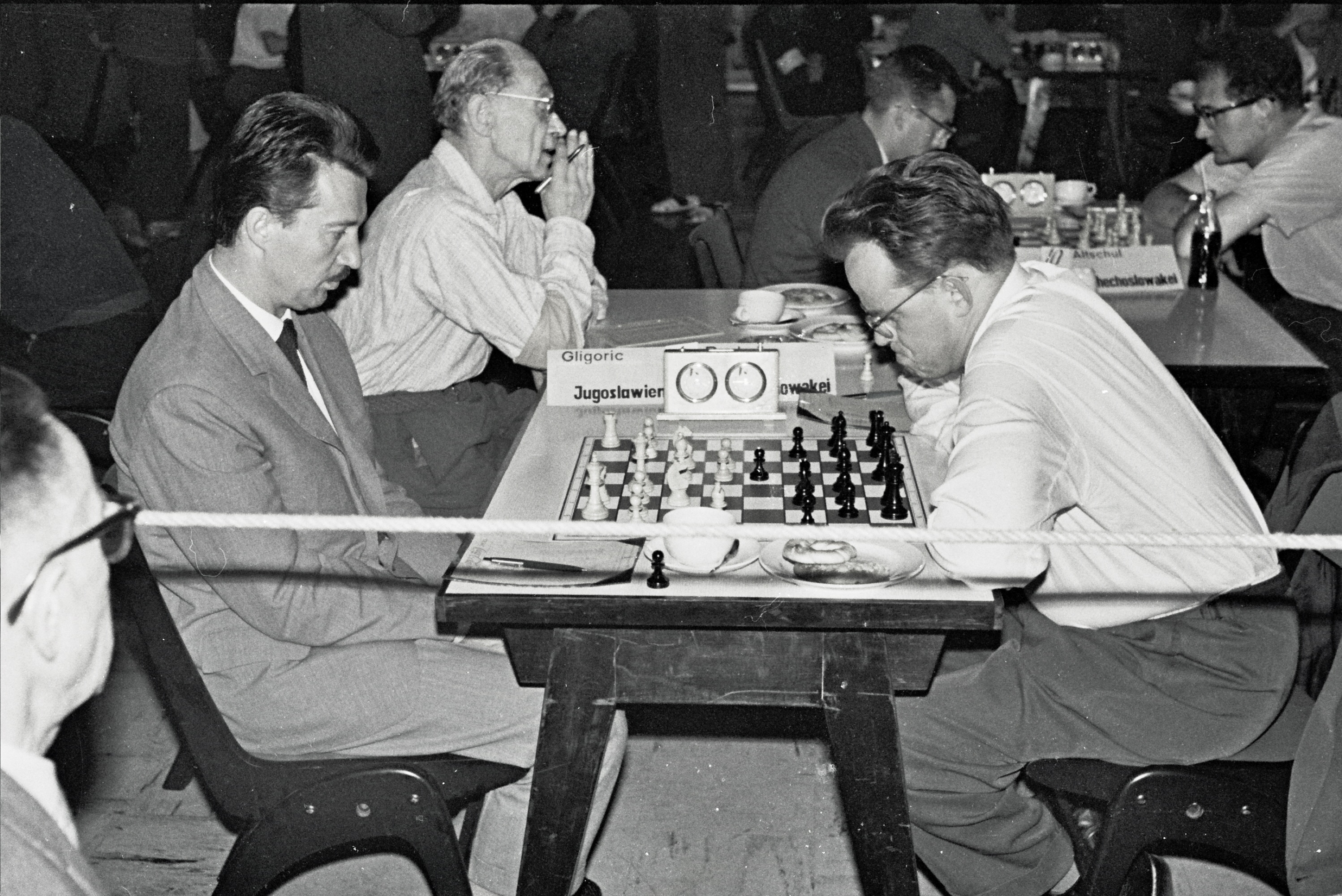 Gligoric - Pachman, European Chess Team Championship 1961 at Oberhausen, Photographer Gerhard Hund.